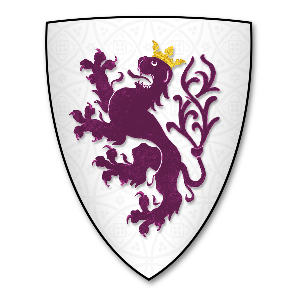 Armorial Bearings of the FOLIOT family represented by Hugh Foliot, Bishop of Hereford in 1219. Arms: Argent, a lion rampant a double queued purpure, crowned or. Strong, George (1848) The Heraldry of Herefordshire: Being a Collection of the Armorial Bearings of Families Which Have Been Seated in the County at Various Periods Down to the Present Time., London: Churton Press